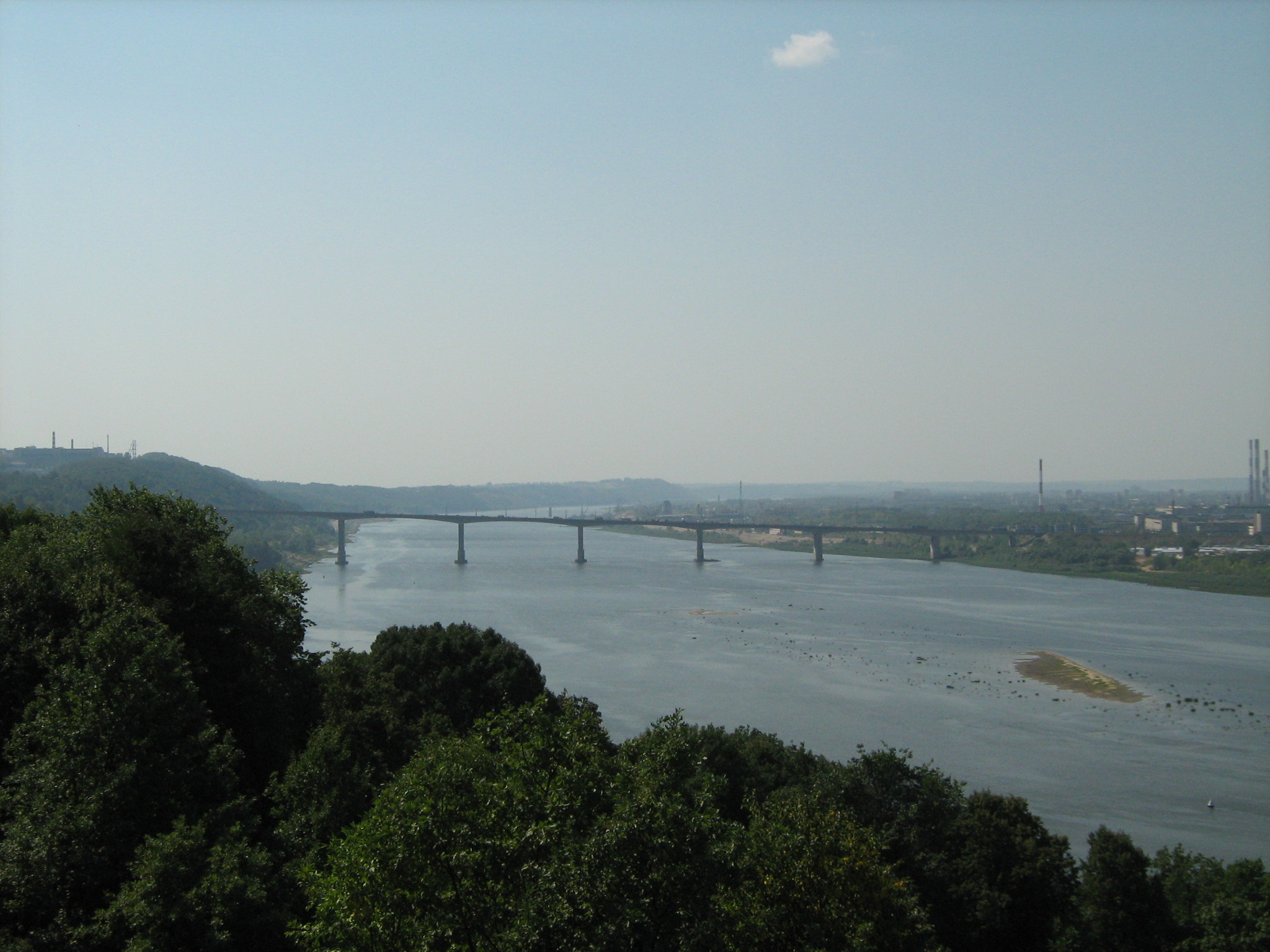 Looking south from the Switzerland Park in Nizhny Novgorod. The Myza Bridge connects the right, high side of the Oka (on the left in the picture) with the left, low side (on the right in the picture).